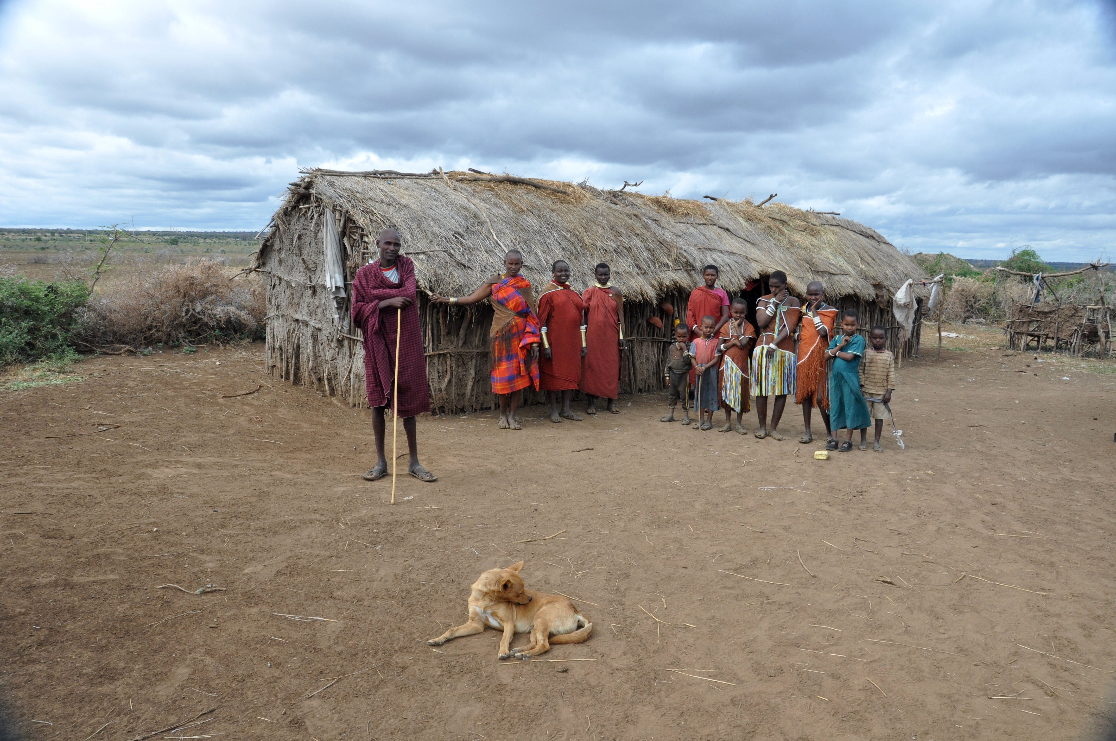 Datoga famiky - a husbamd, his wives and children - Tarangire National Park, Tanzania